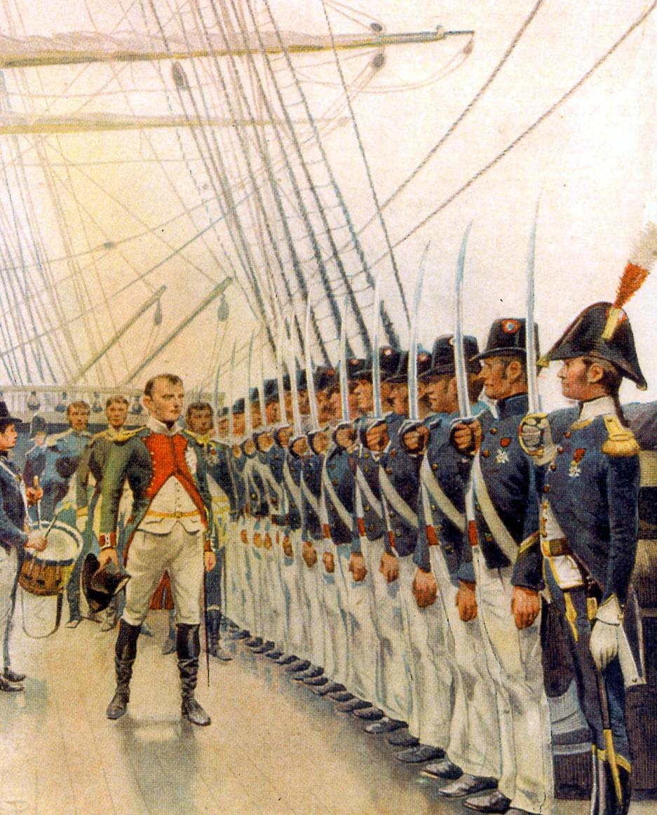 Napoleon inspecting the fleet of Cherbourg in May 1811, by Rougeron and Vignerot